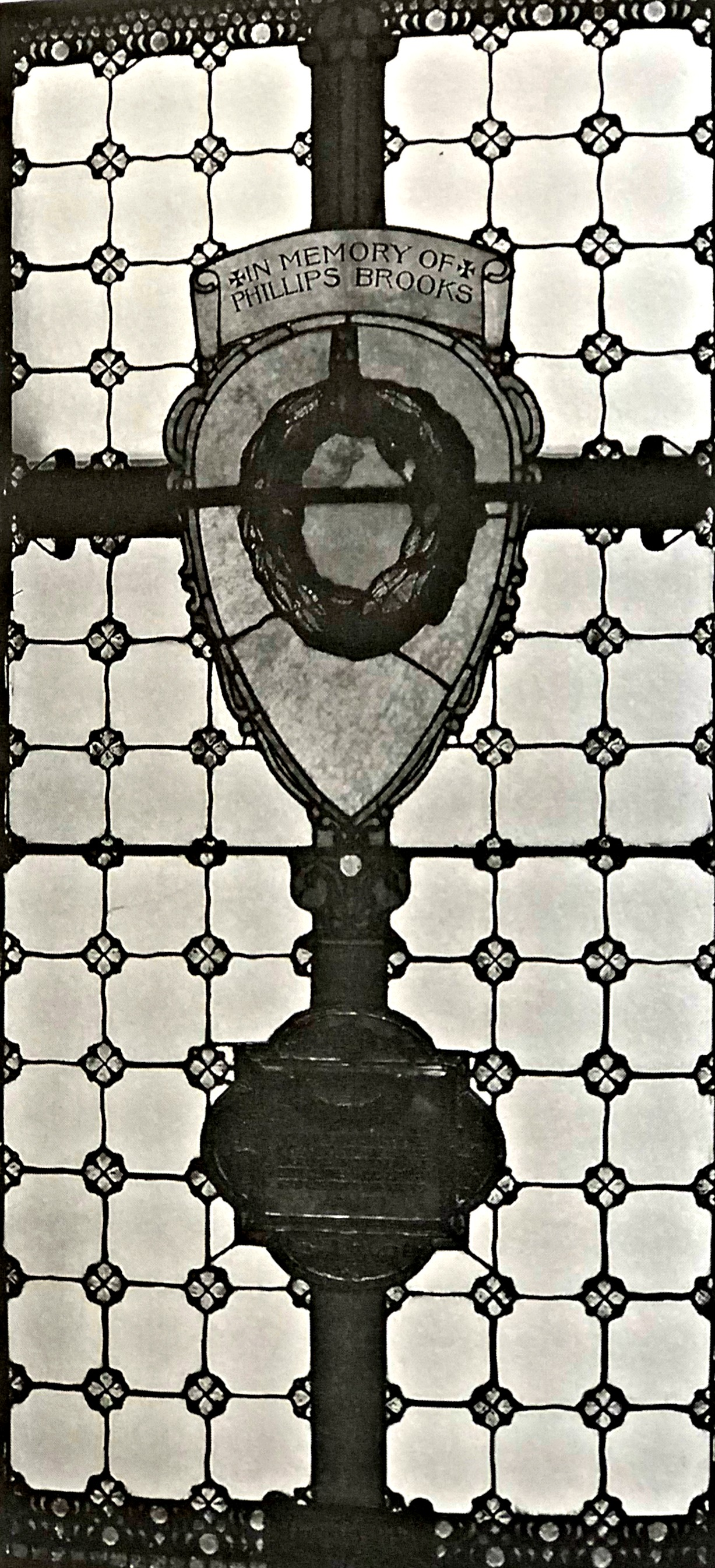 detail of the Phillips Brooks Memorial window in the Ferris Library, Trinity Church, Boston 1895-1896